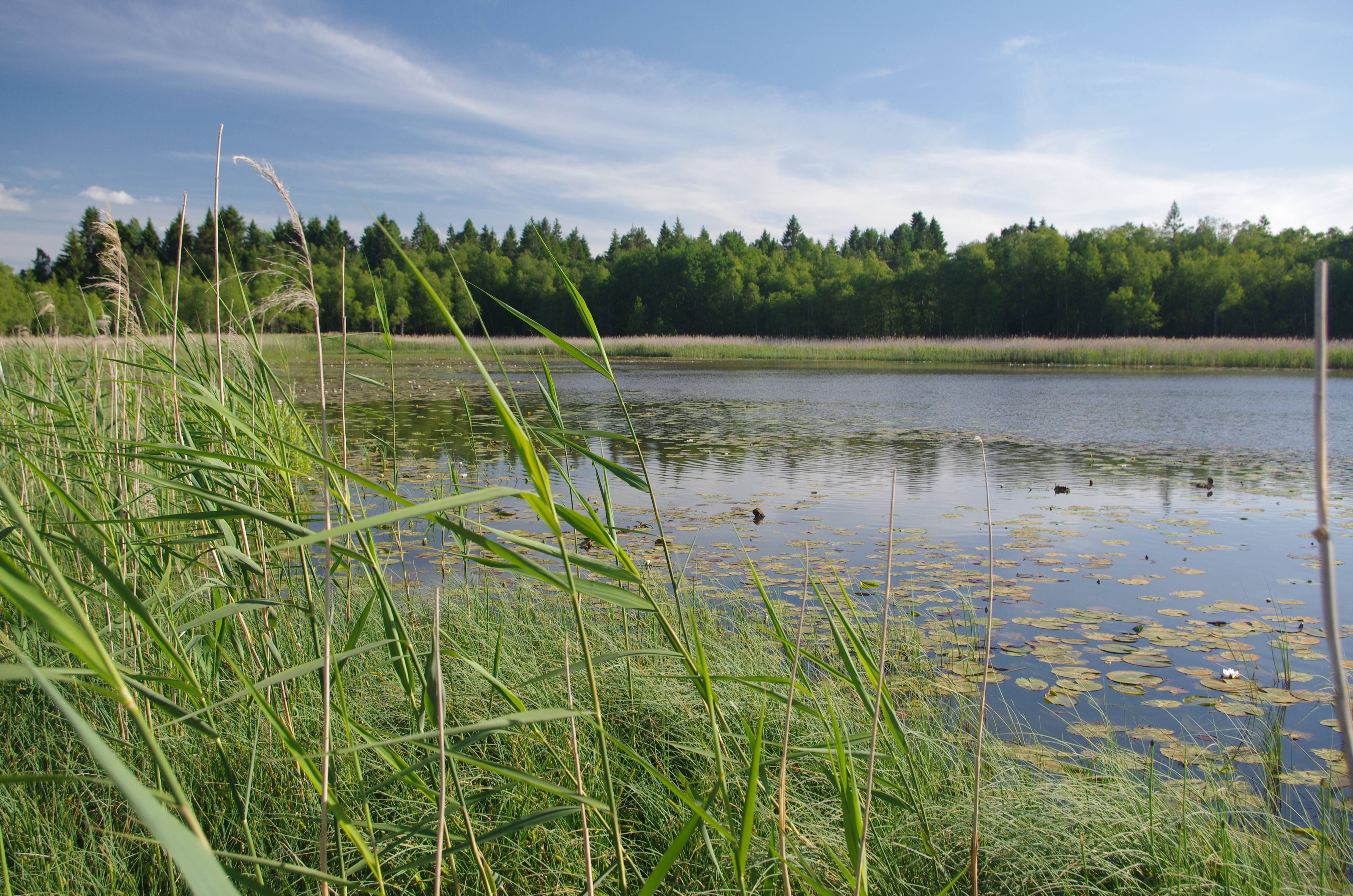 Mårbysjön: Lake in Västergötland Sweden